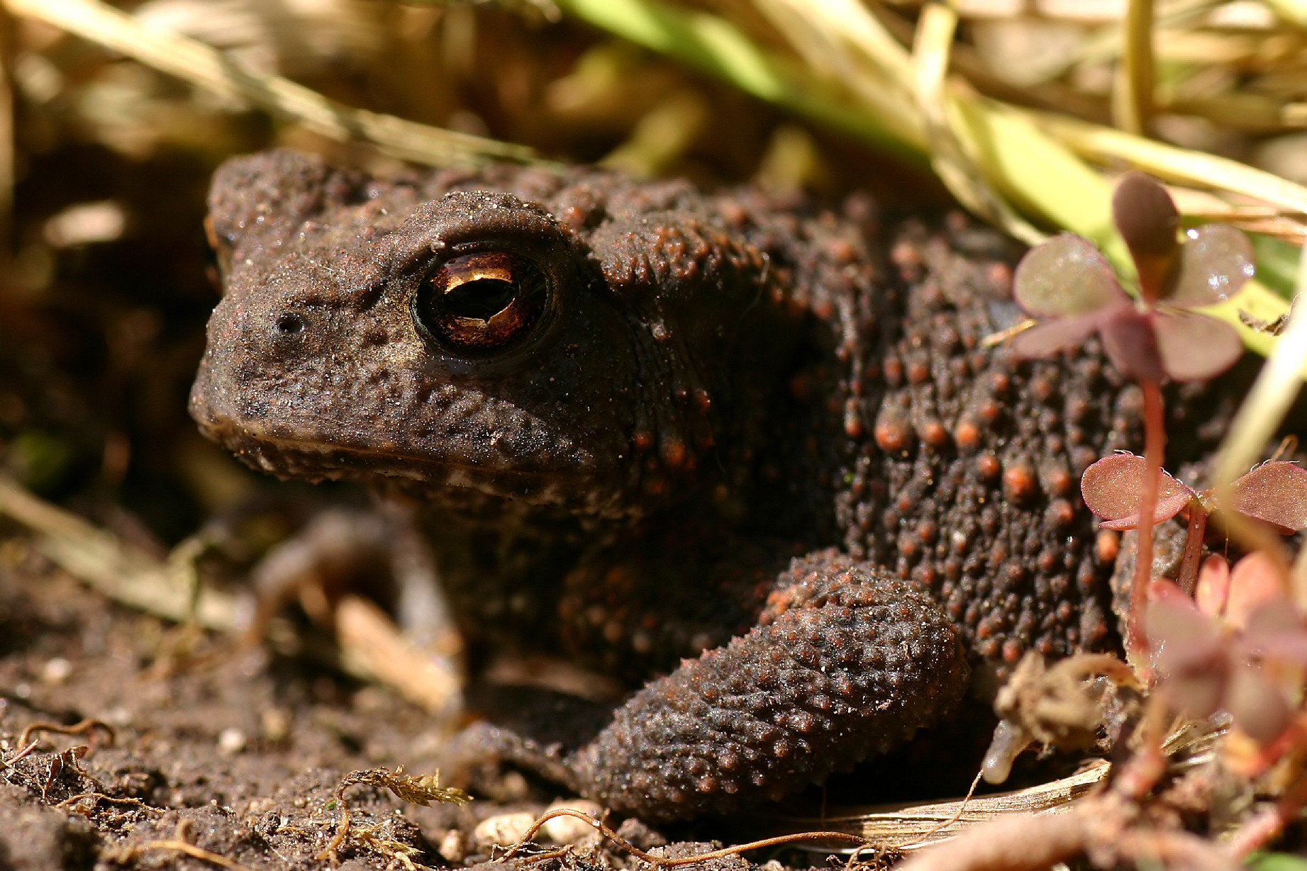 Common Toad (Bufo Bufo). Photographed in Mödling(Lower Austria).